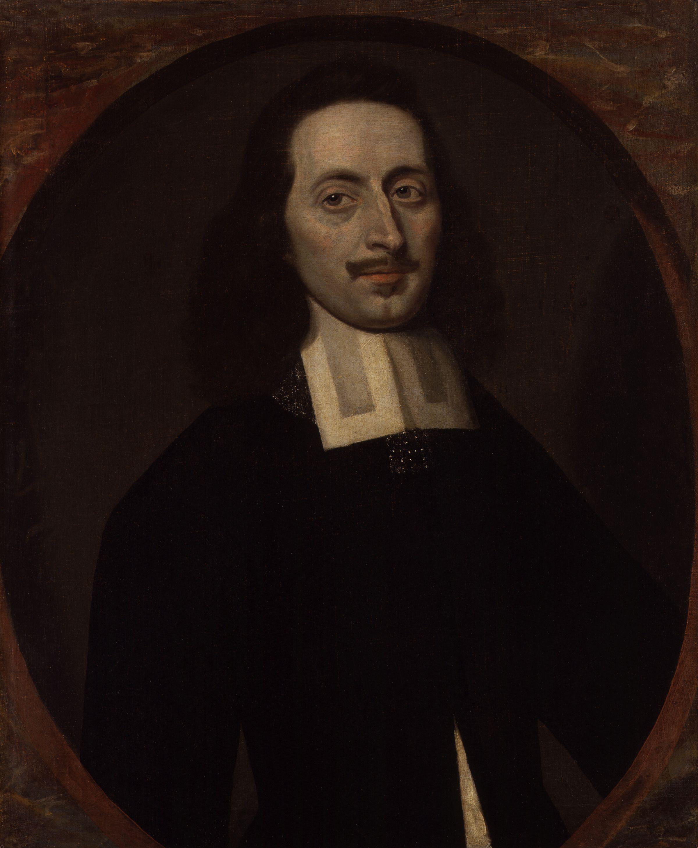 John Earle, by unknown artist. All images in this batch are listed as "unknown author" by the NPG, who is diligent in researching authors, and was donated to the NPG before 1939 according to their website.